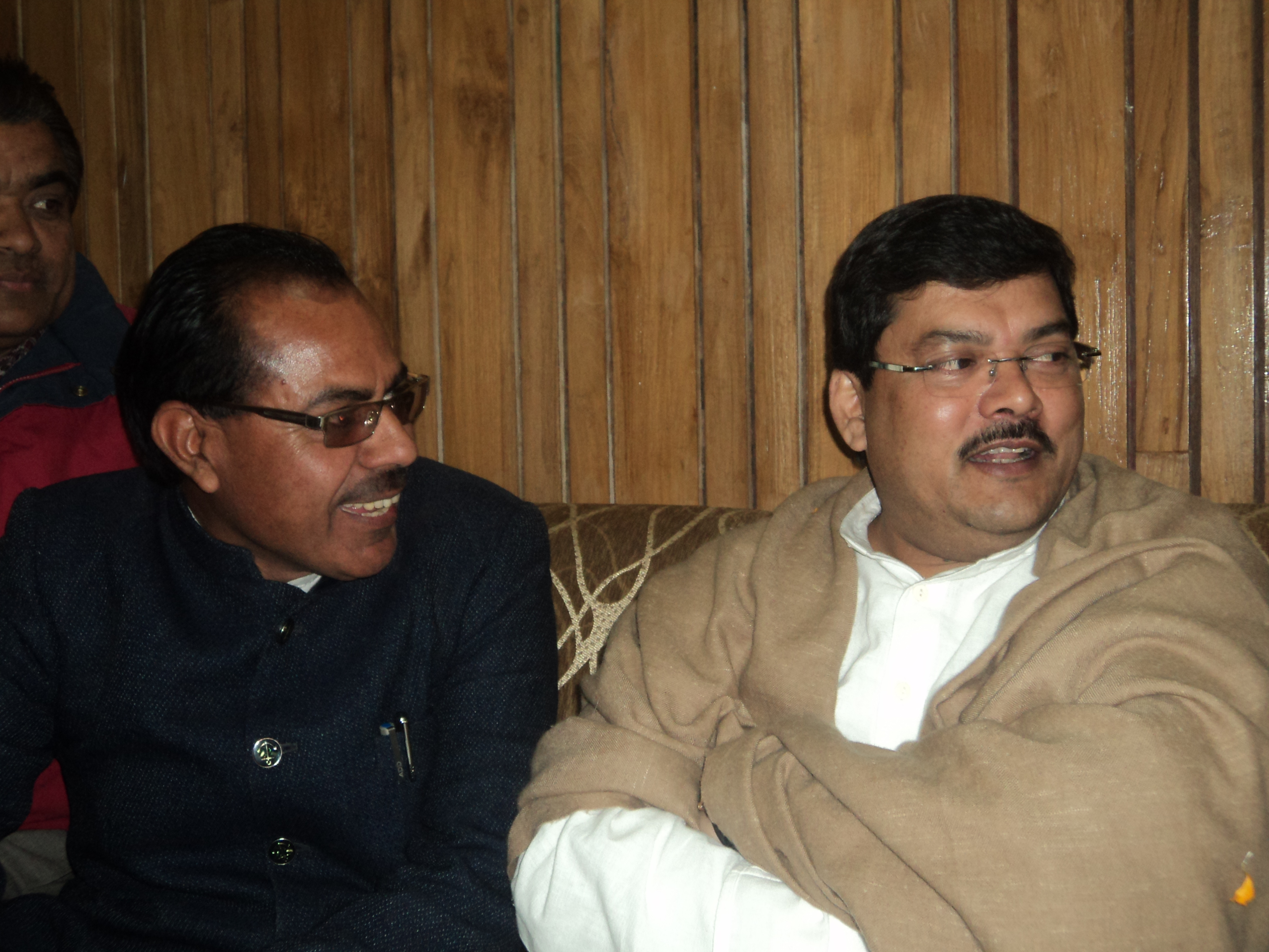 R K Walia with Mukul Wasnik